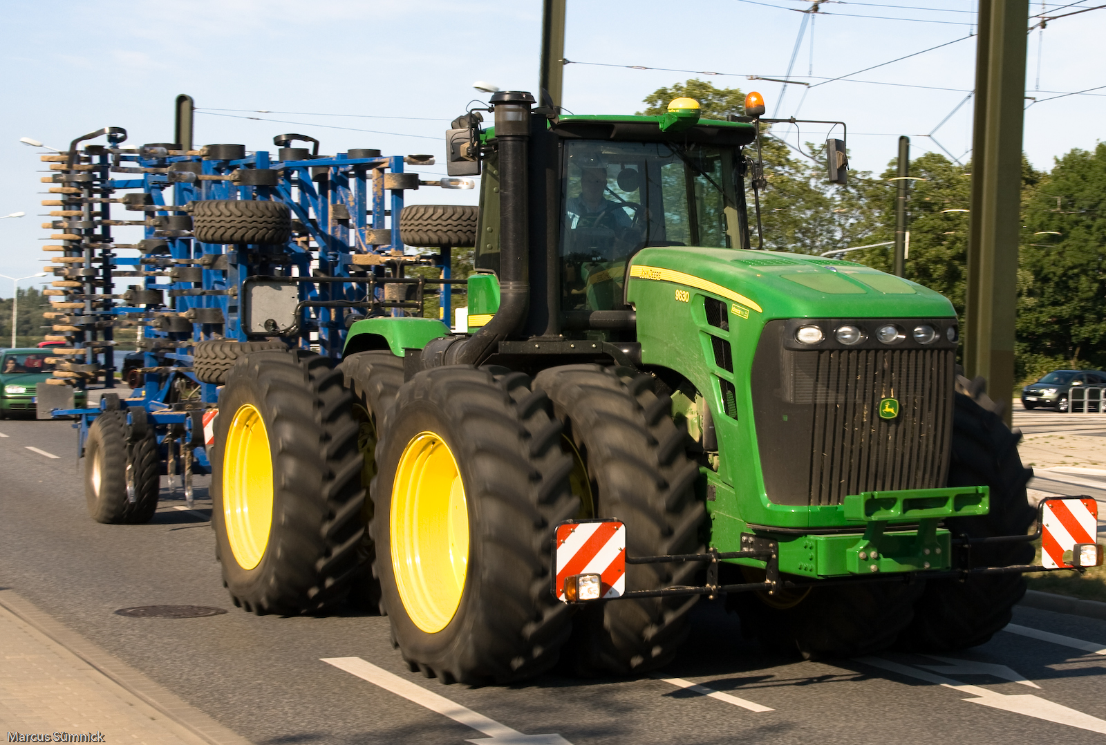 John Deere 9630 on promotion tour in Germany